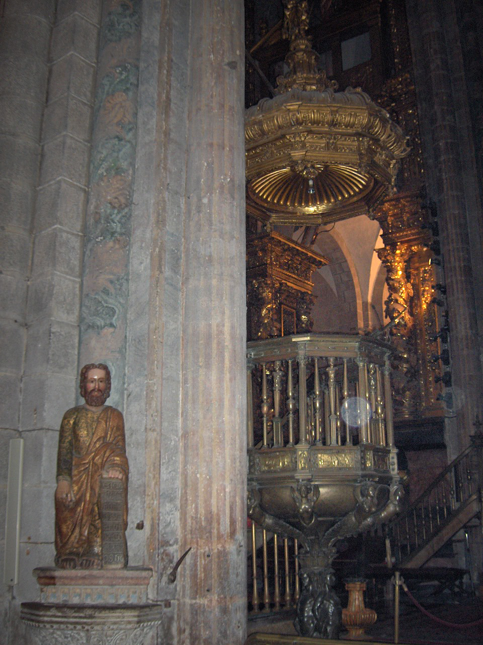 Pulpit in the cathedral of Santiago de Compostela, Spain